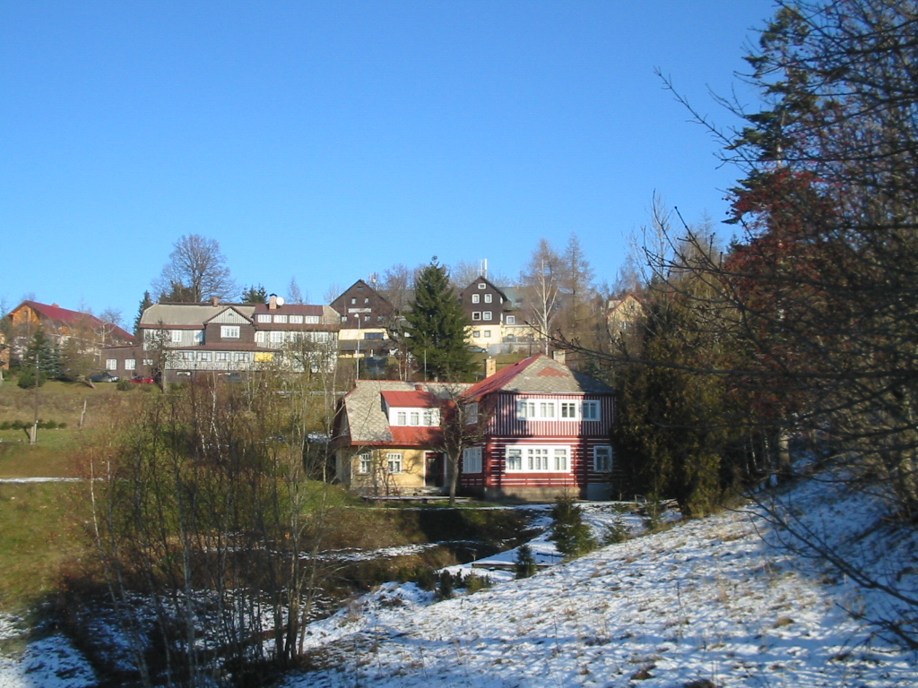 Panorama of Benecko (Czech republic)